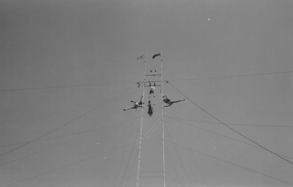 We see four trapeze acrobatics in full at Belmont Park in Cartierville. The show takes place outdoors.